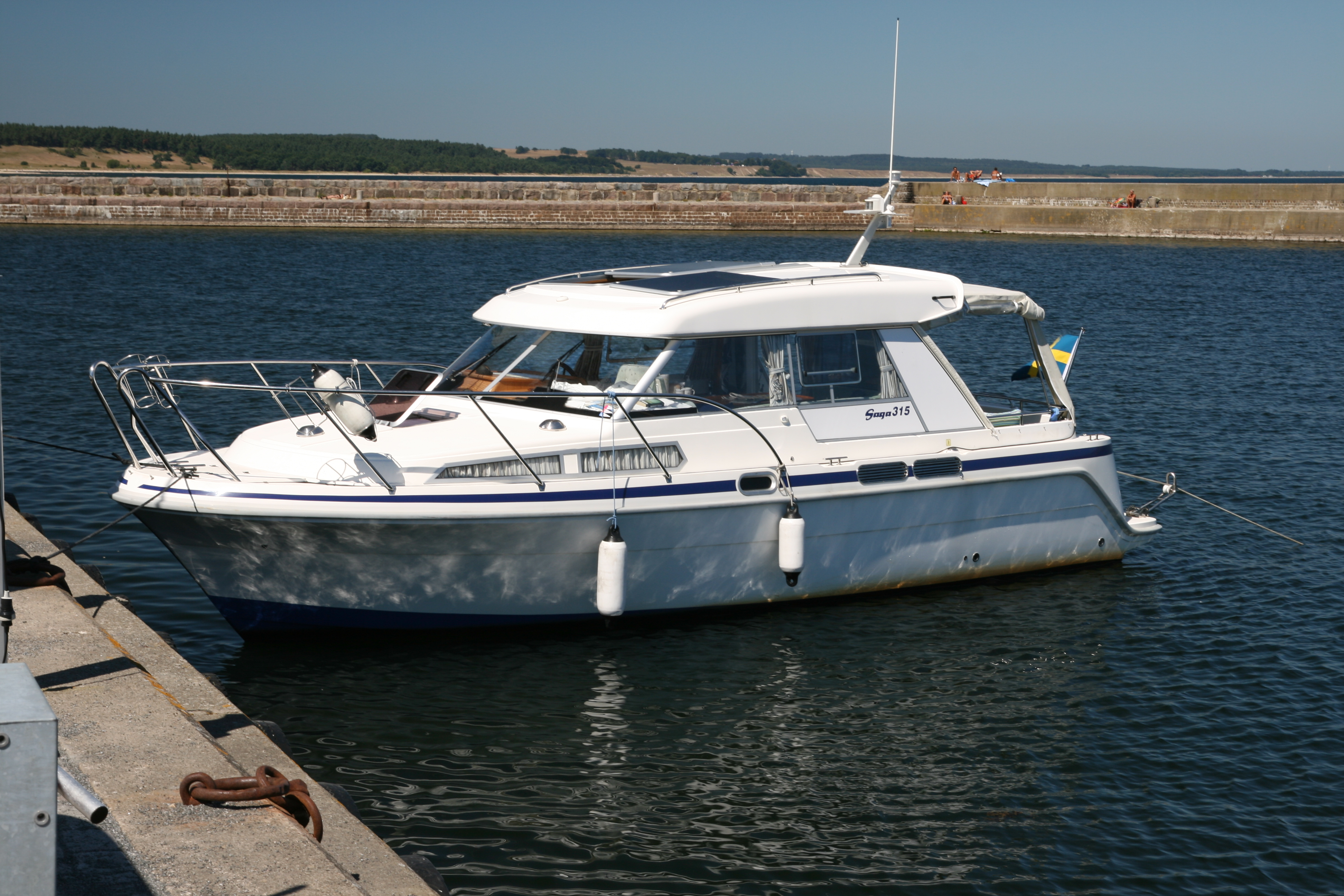 A Saga 315 motorboat, docked in Kivik, Sweden.